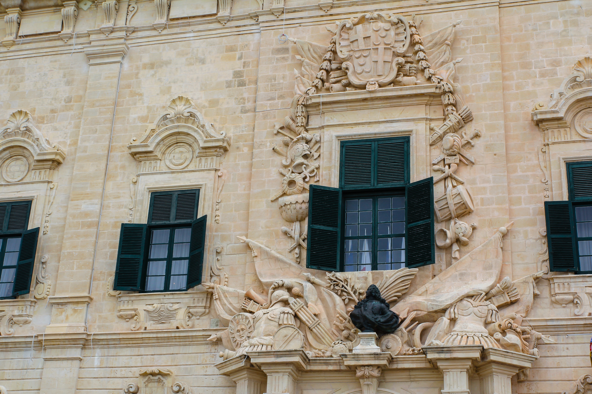 Auberge de Castille, Valletta, Malta